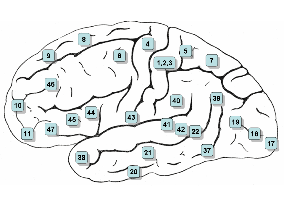 Lateral surface of left cerebral hemisphere, viewed from the side.